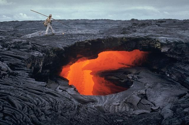 Lava tube on the Mauna Ulu flank, Hawaii, United States